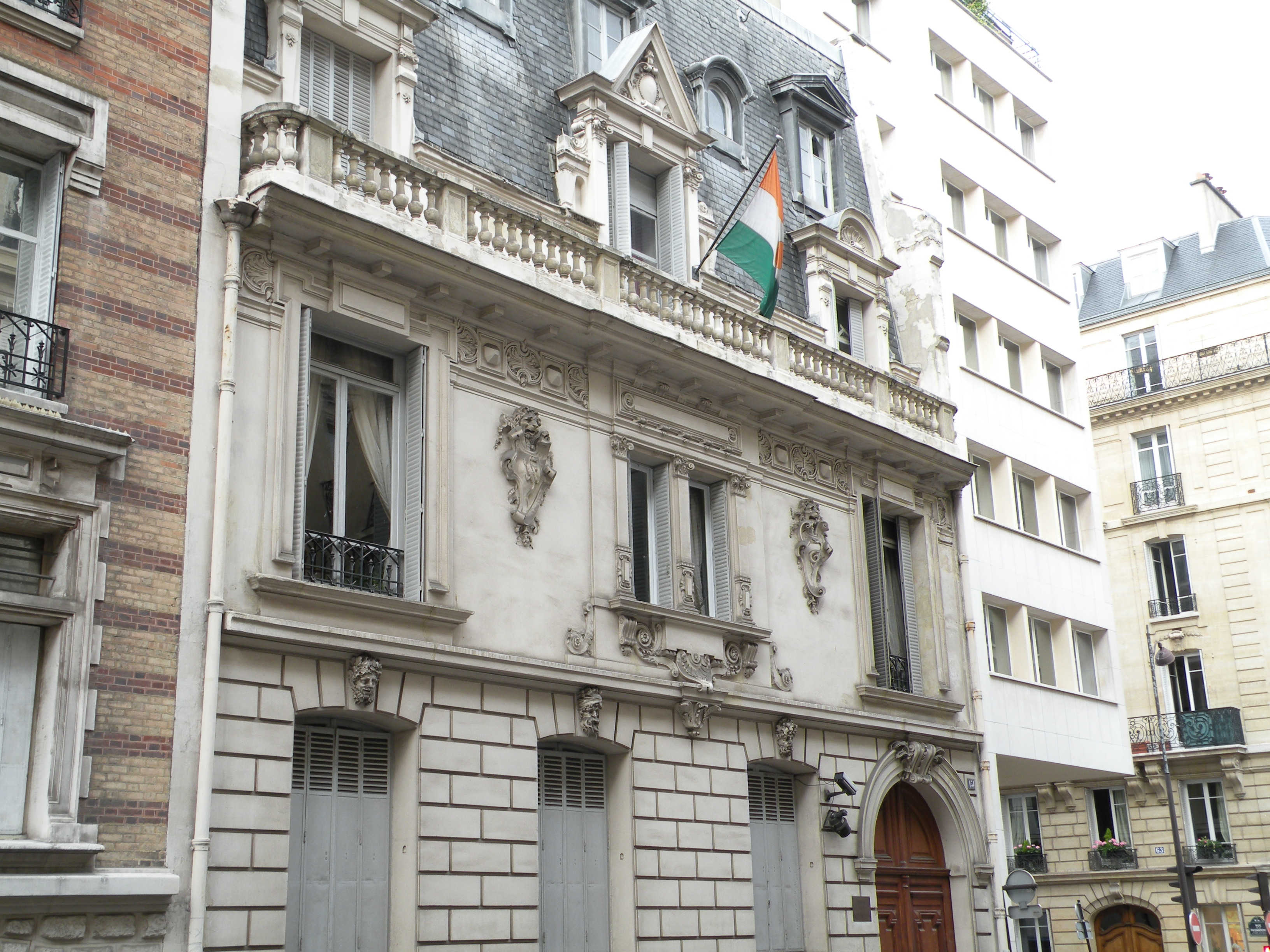 Nigerien embassy in France, Paris.